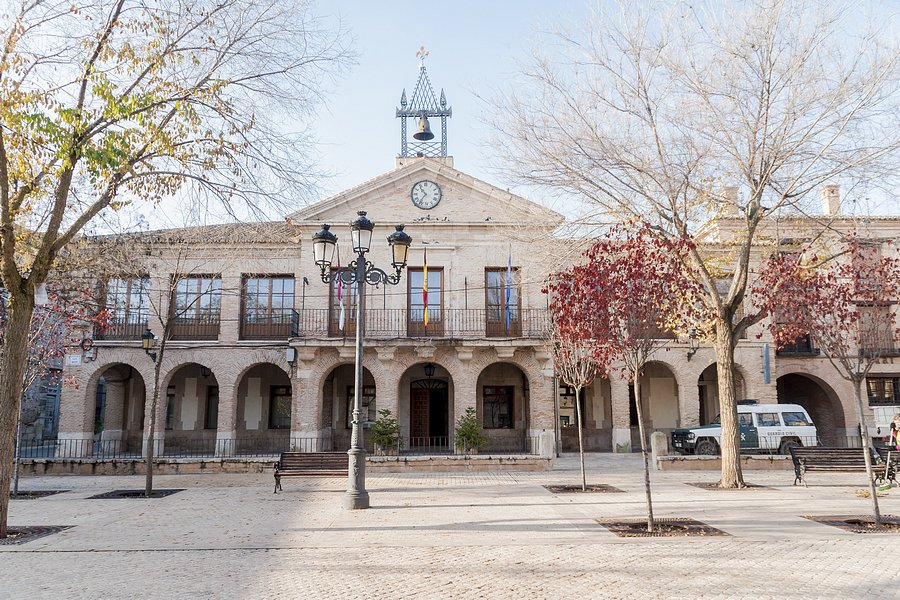 Ayuntamiento de Corral de Almaguer